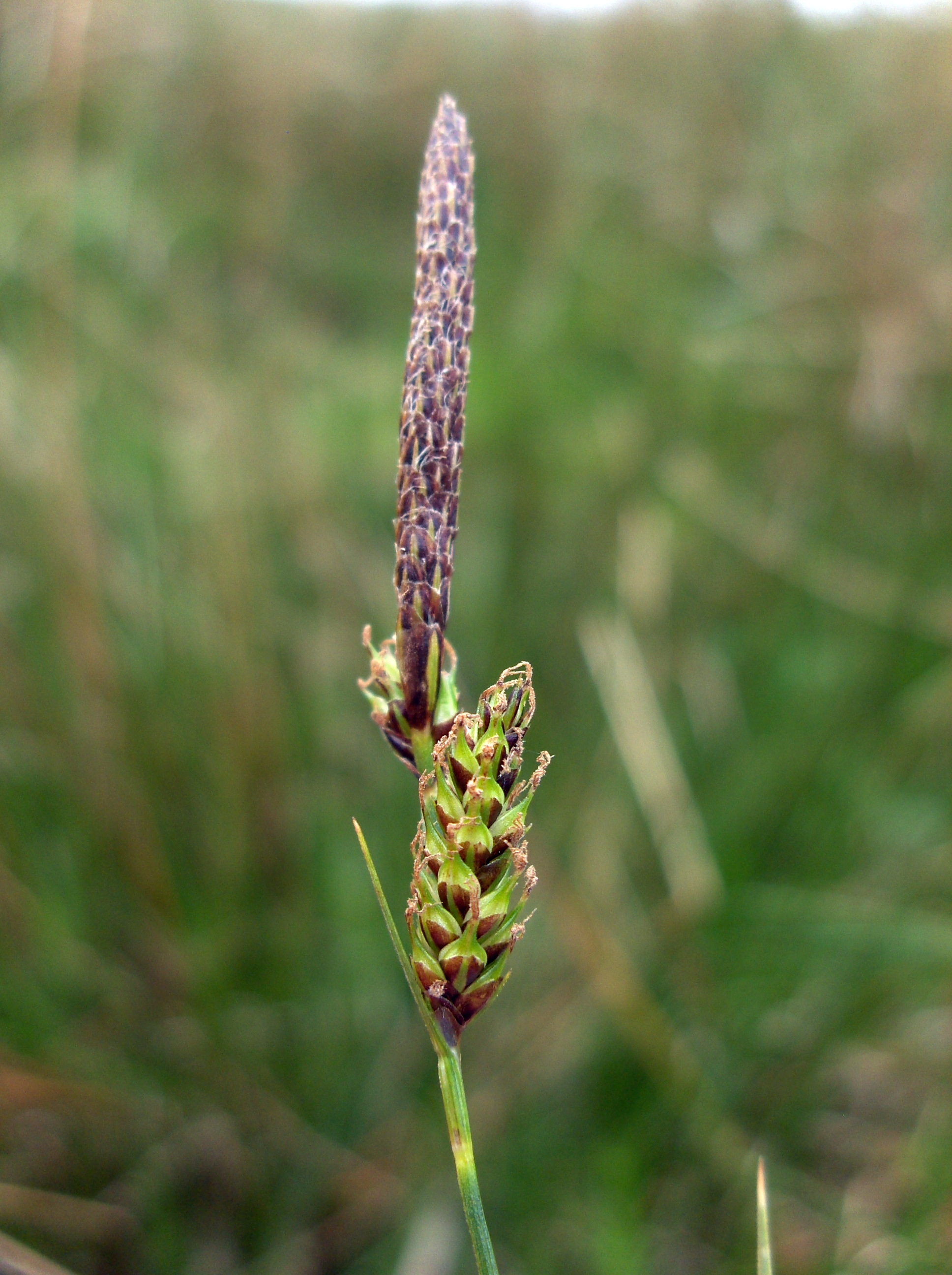 The inflorescence of Carex binervis